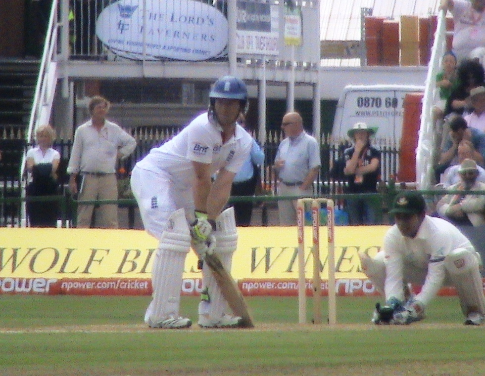 Eoin Morgan preparing to face a delivery from one of Bangladesh's spin bowlers on the first day of the 2nd Test at Old Trafford. Mushfiqur Rahim, the wicket-keeper, is standing up to the stumps.